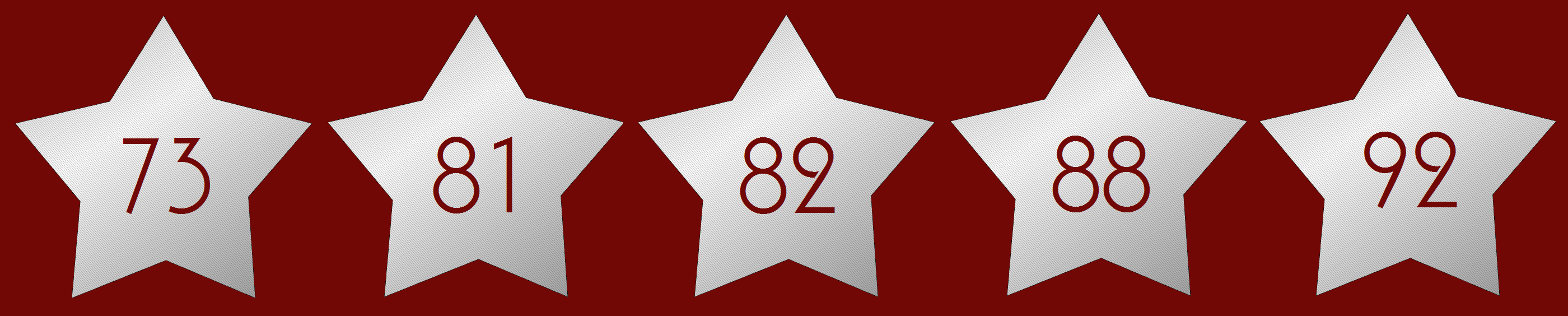 Politécnico National Championships years